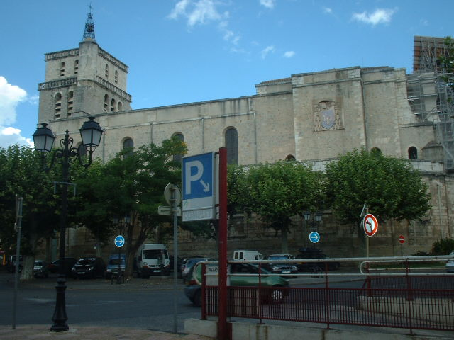 St John the Baptist Cathedral in Alès in Gard, in France